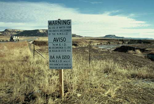 A warning sign placed by the Puerco river by the New Mexico Environmental Improvement Division after the Church Rock uranium mill spill on July 16, 1979.